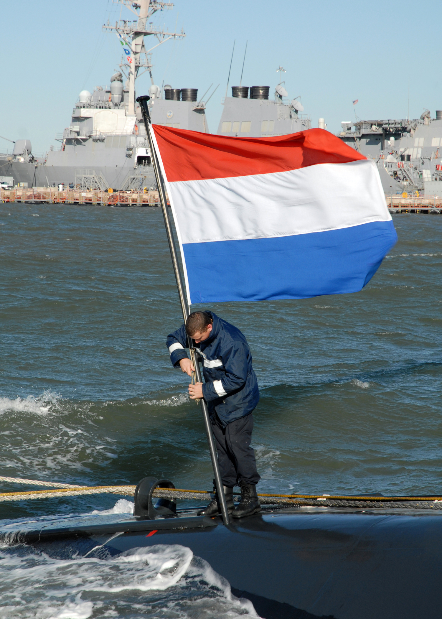 NORFOLK, Va. (Oct. 28, 2008) A submariner assigned to the Dutch submarine HNLMS Walrus (S802) raises the Dutch National flag after the submarine moored at Naval Station Norfolk. Walrus concluded an exercise with U.S. Naval units and will enjoy a brief port visit and meet with Sailors from Commander, Submarine Force. (U. S. Navy photo by Chief Mass Communication Specialist Marlowe P. Dix/Released)